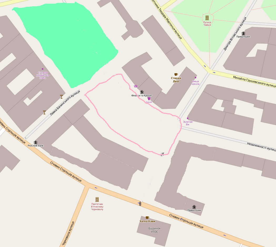 modified sketch of openstreetmap, pink zone is the square. Removed non-existing streets. Practically the whole area is pedestrian.